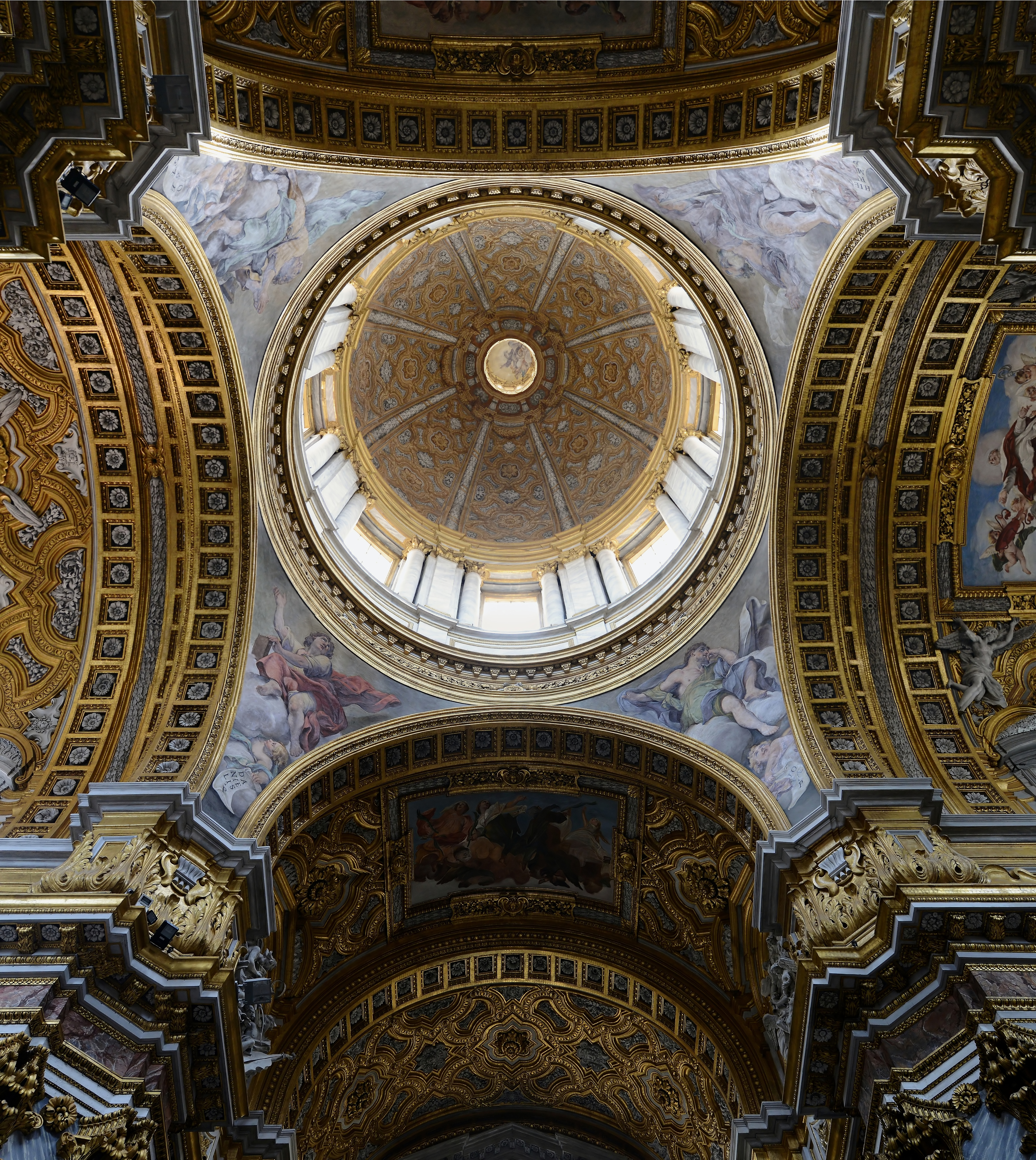 Cupola of the Church of San Carlo al Corso, Rome